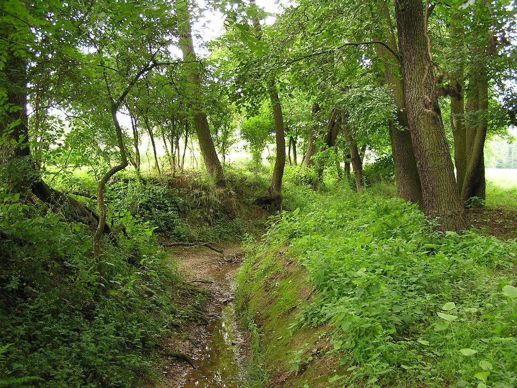 The Seulbach in a copse known as “Waeldchen”